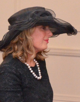 Deborah Chambers, at Government House, Wellington, on 16 September 2013.